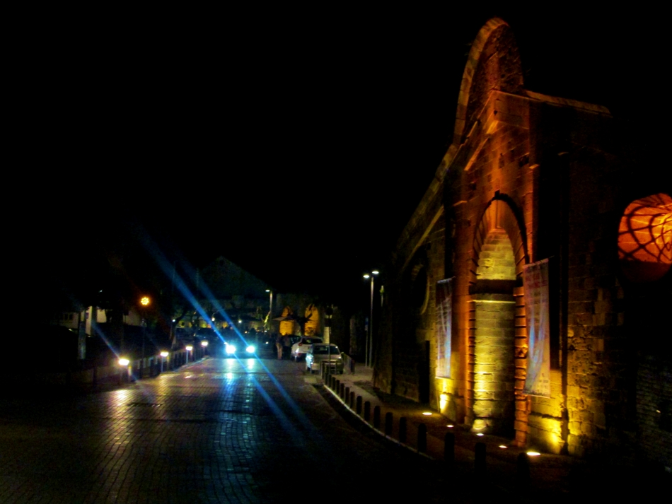 Nicosia Cyprus by night